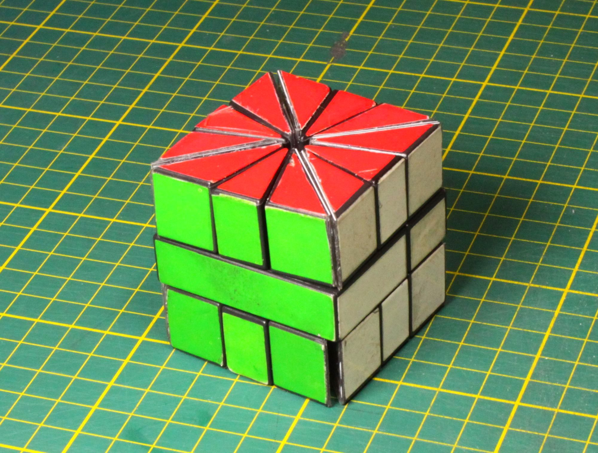 Finally done after a lot of sanding down and reglueing, some more sanding, some lubricating and reassembling. It still locks up sometimes but mainly when you don't align the layers properly before twisting. Check out the Video .